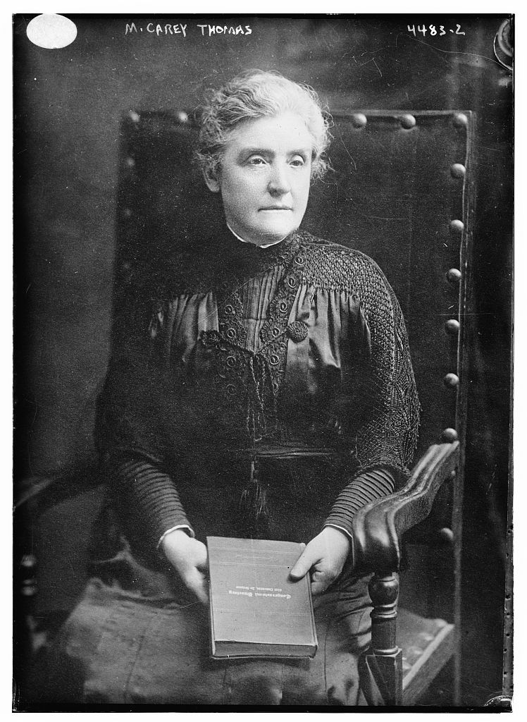 Martha Carey Thomas in 1918